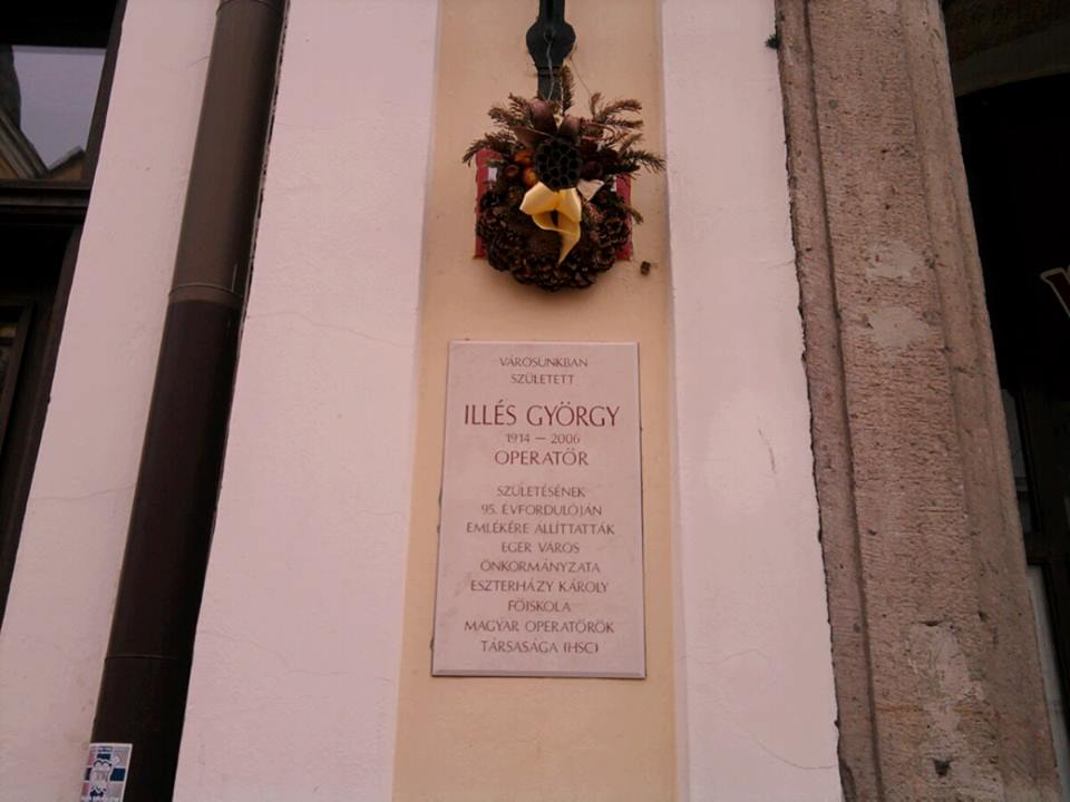 Memorial tablet of cinematographer György Illés in Eger, Hungary